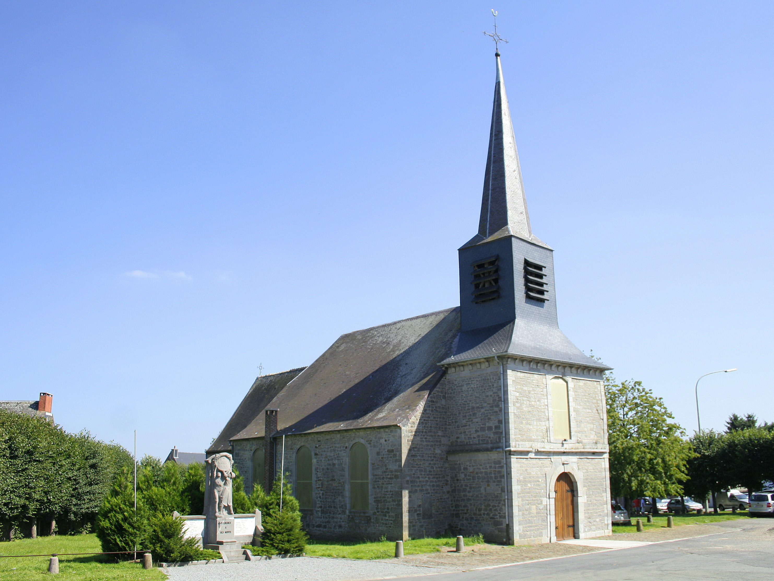 Seloignes (Belgium), the church.